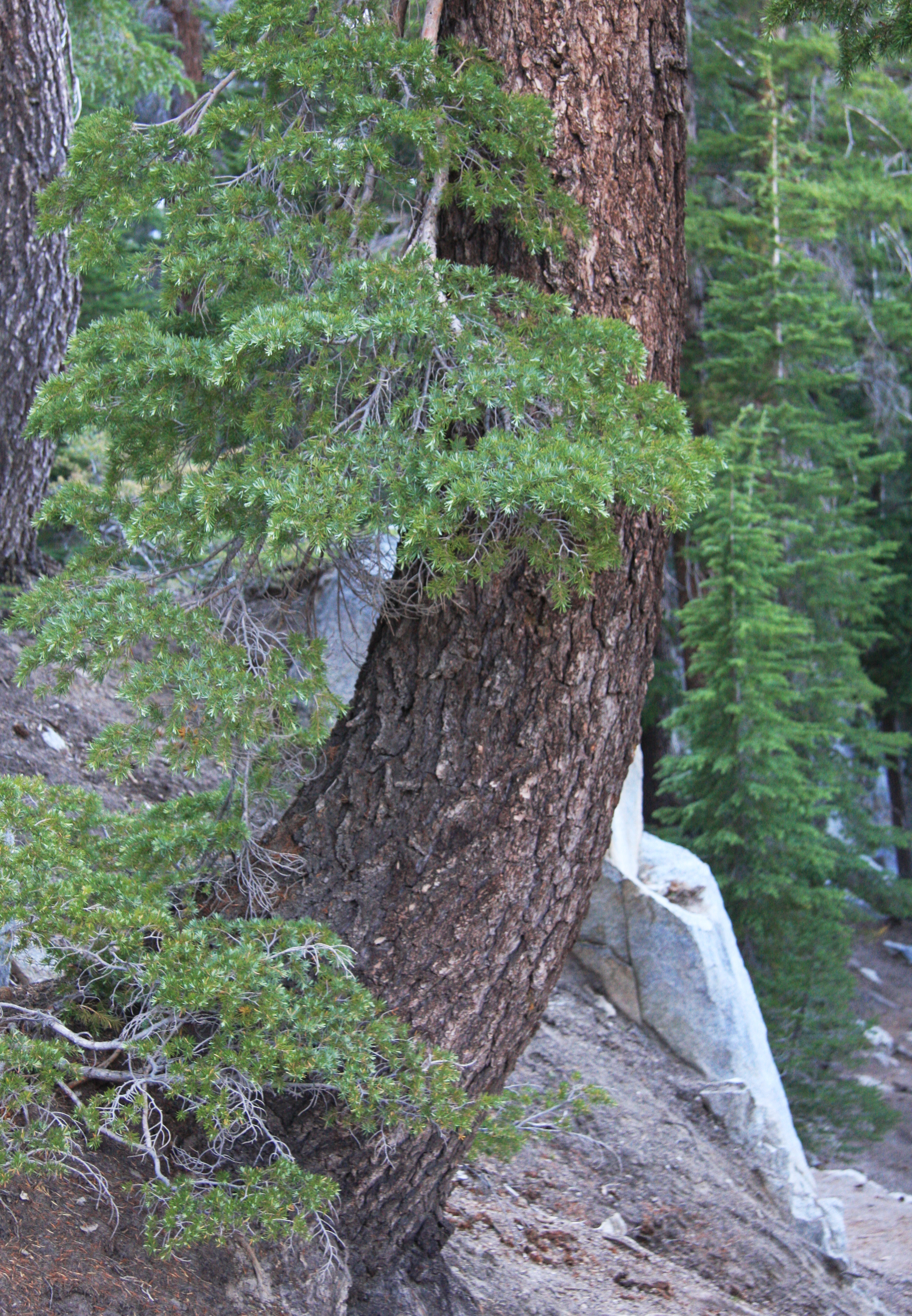 Mountain hemlock (Tsuga mertensiana) branch against curved trunk. Crystal Crag trail above Lake George, Sierra Nevada, USA.